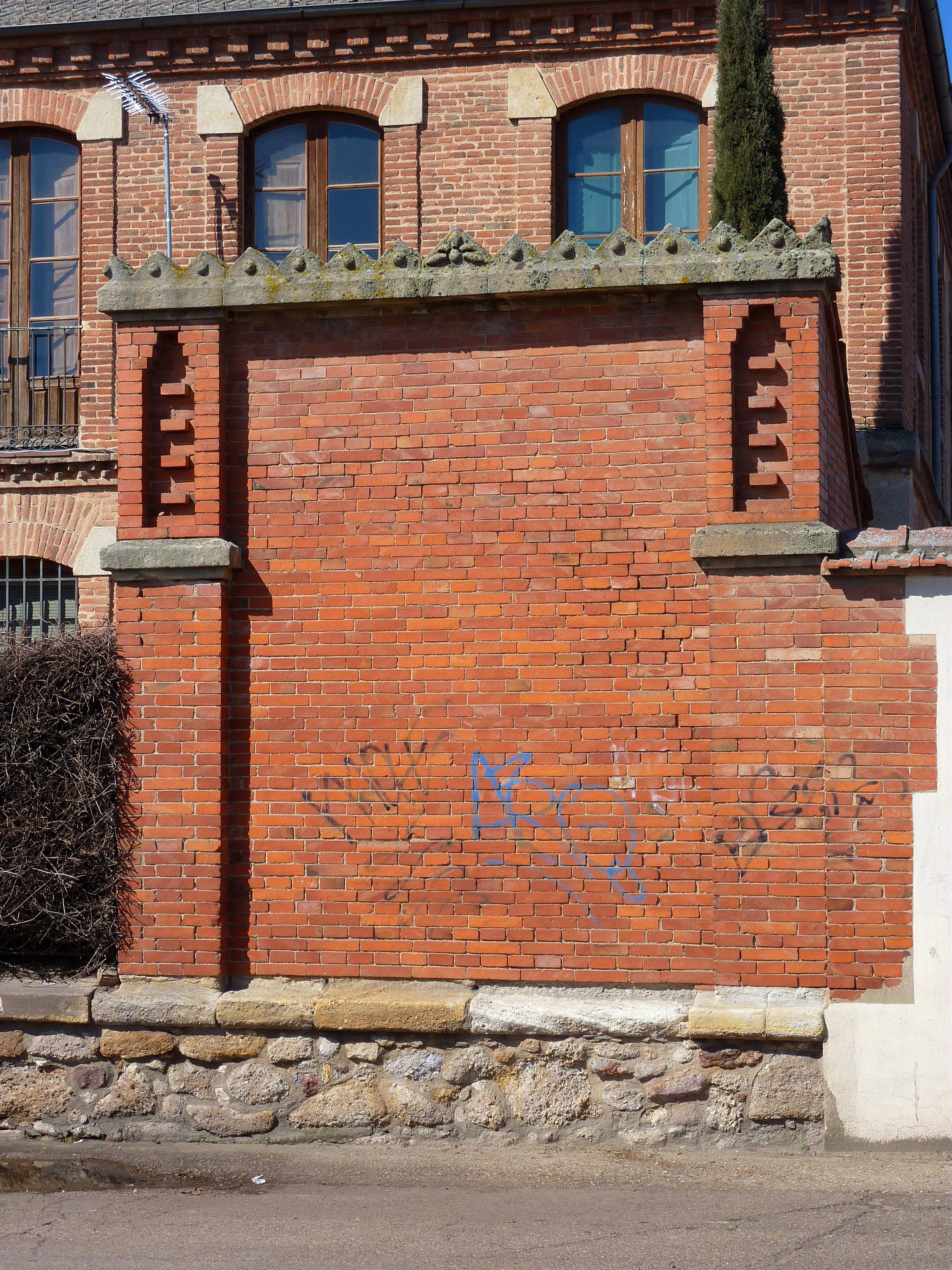 Bobo Flour Plant, Zamora, Spain.